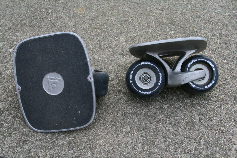 Picture of a pair of Freeline Skates from a different angle